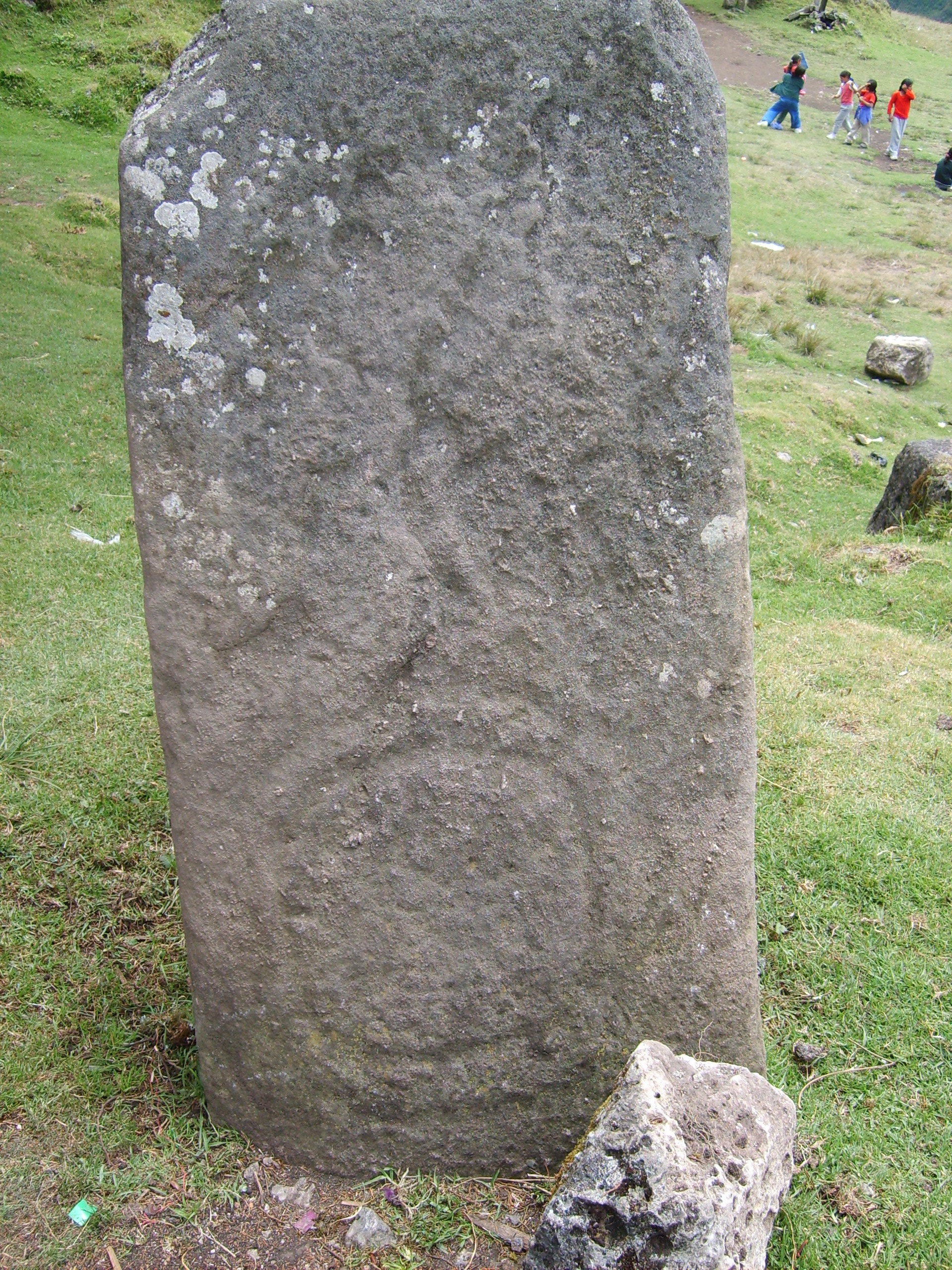 Carved Maya stela in the ruins at San Mateo Ixtatán.